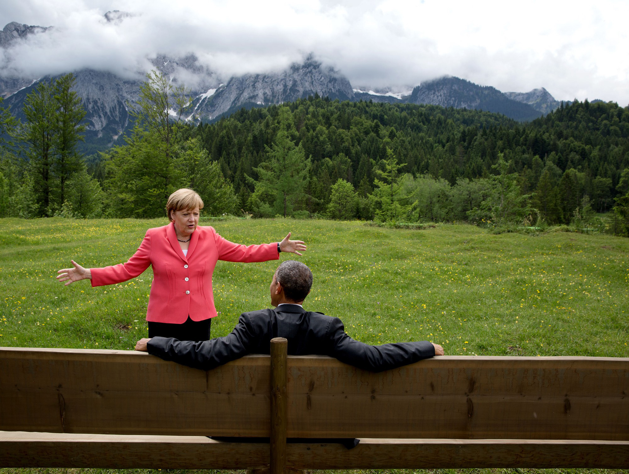 June 8, 2015 "We were at the G7 Summit in Krün, Germany. Chancellor Angela Merkel asked the leaders and outreach guests to make their way to a bench for a group photograph. The President happened to sit down first, followed closely by the Chancellor. I only had time to make a couple of frames before the background was cluttered with other people." (Official White House Photo by Pete Souza)